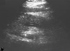 Ultrasonography of acute pancreatitis, showing a bulky hypoechoic organ.